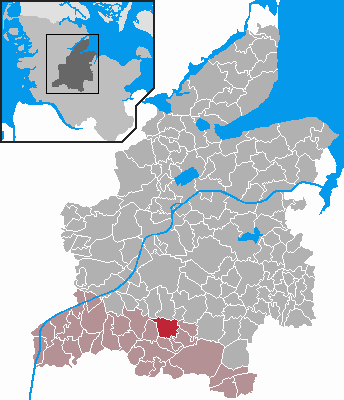 Locator maps of municipalities in Schleswig-Holstein - District Rendsburg-Eckernförde